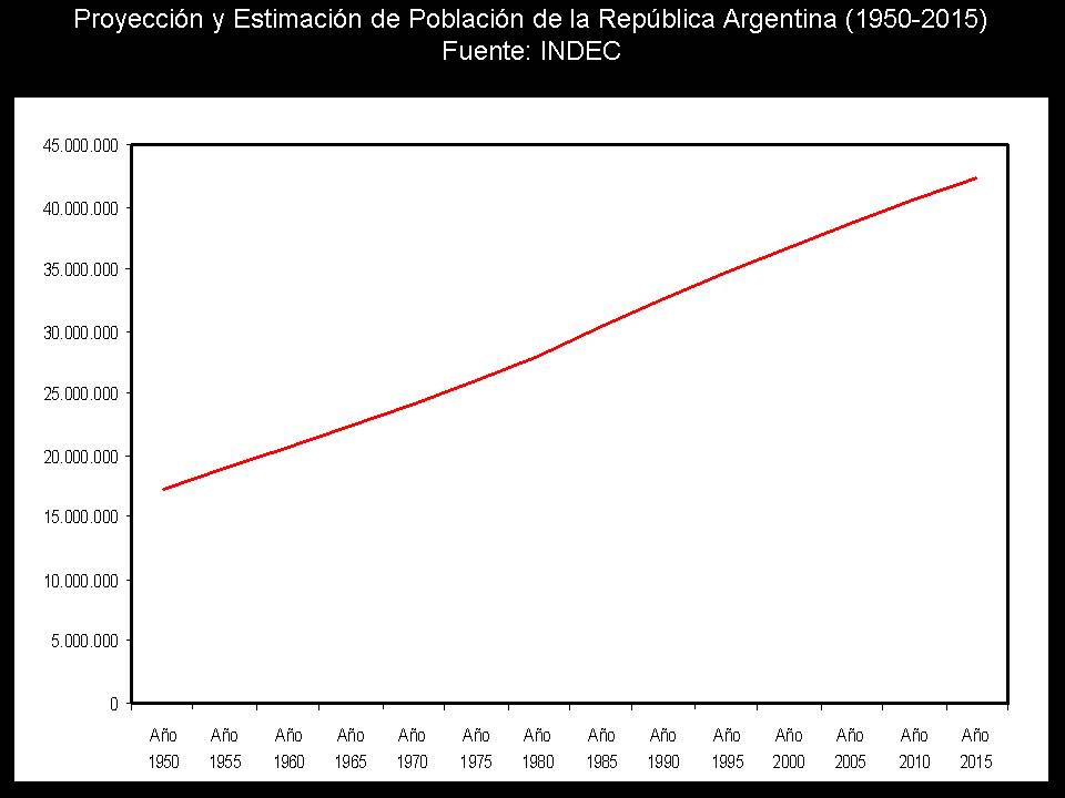 Argentina's population (1950-2015).